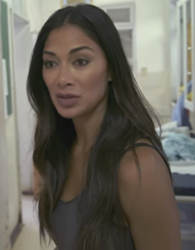 Unicef UK high profile supporter Nicole Scherzinger visited a hospital in Swaziland where Unicef supports children when they come into the world. Donate tonight and help Unicef be there for more children when they’re most vulnerable: .ukTwo teams. One goal. One unforgettable game of football.